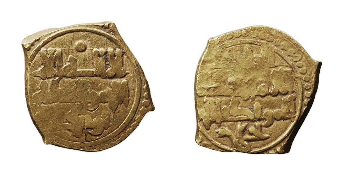 Fraction of dinar minted by the taifa of Badajoz under the reign of Yahya II al-Mansur. Contrary to other similar coins, this one is in gold instead of electrum.